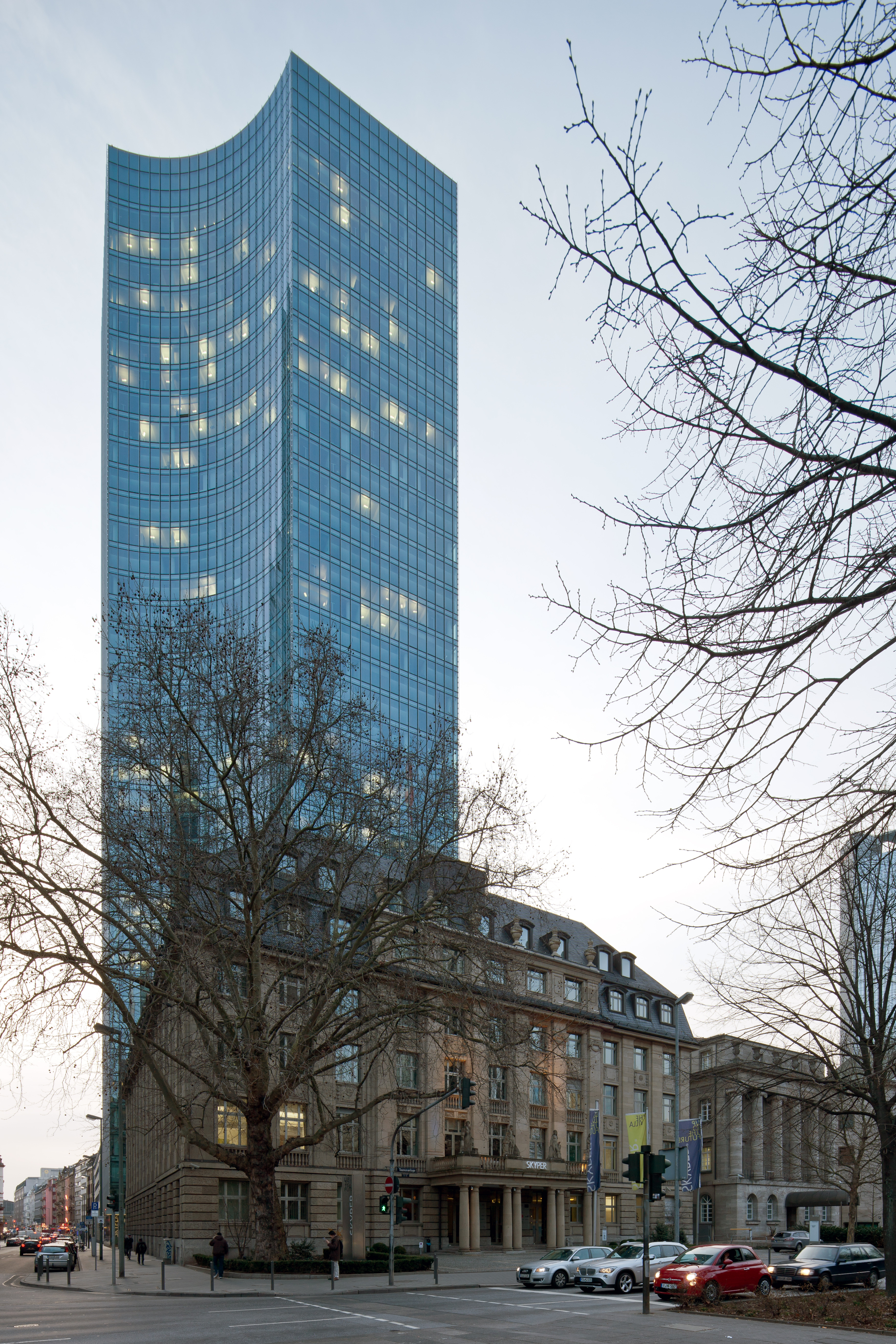 Frankfurt on the Main: Skyper as seen from the southeast